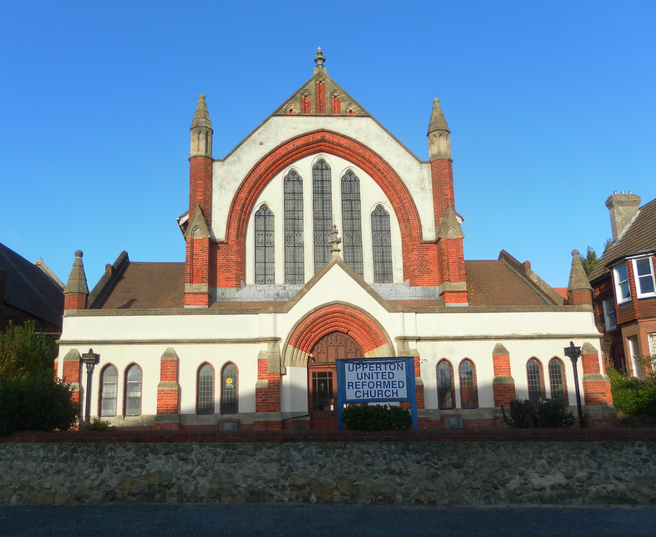 Upperton United Reformed Church, Upperton Road, Eastbourne, East Sussex, England. A United Reformed (originally Congregational) church in the Upperton area of the town.